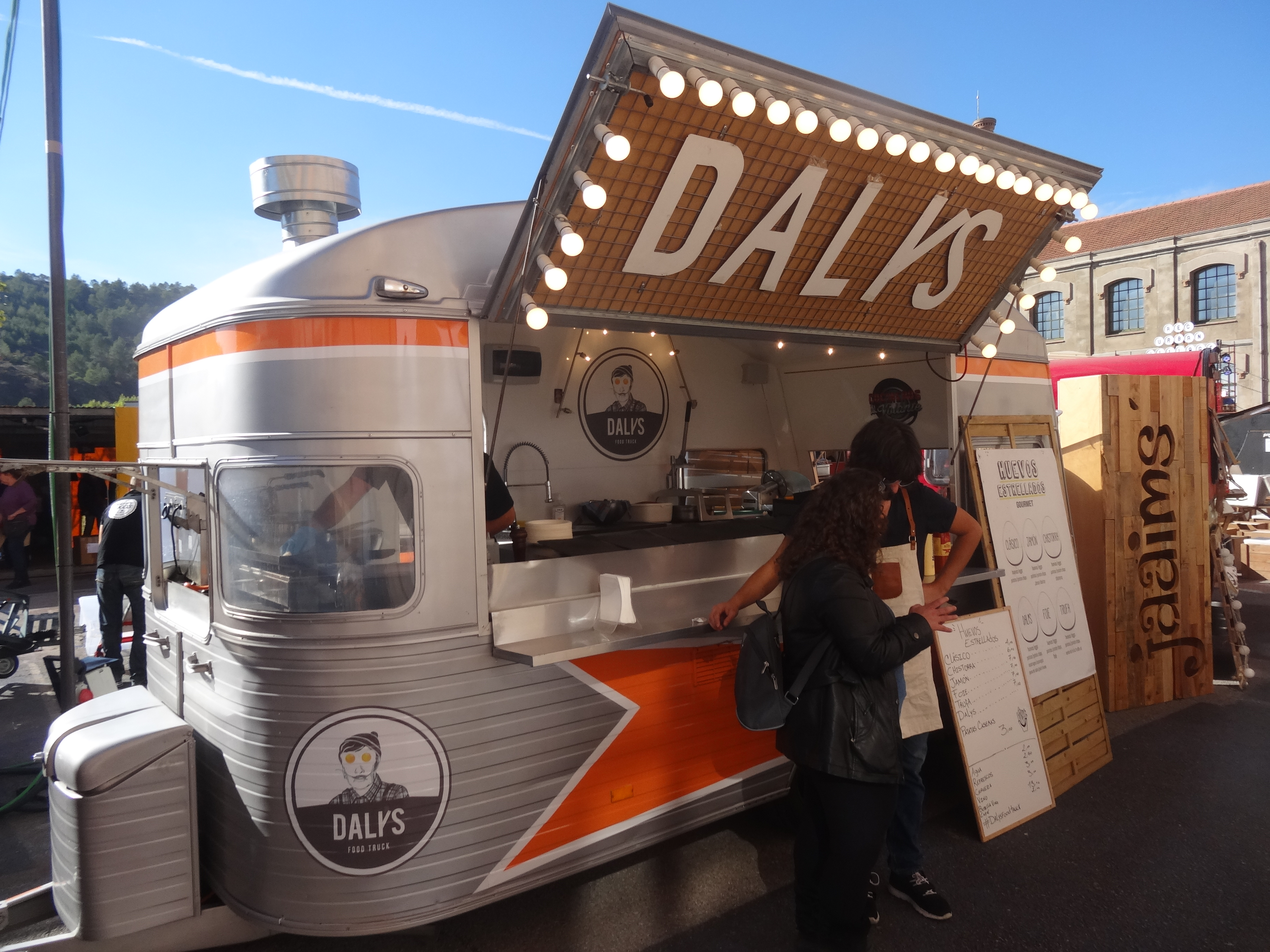 Food trucks at the RecStores shopping event, november 2015, in Igualada.